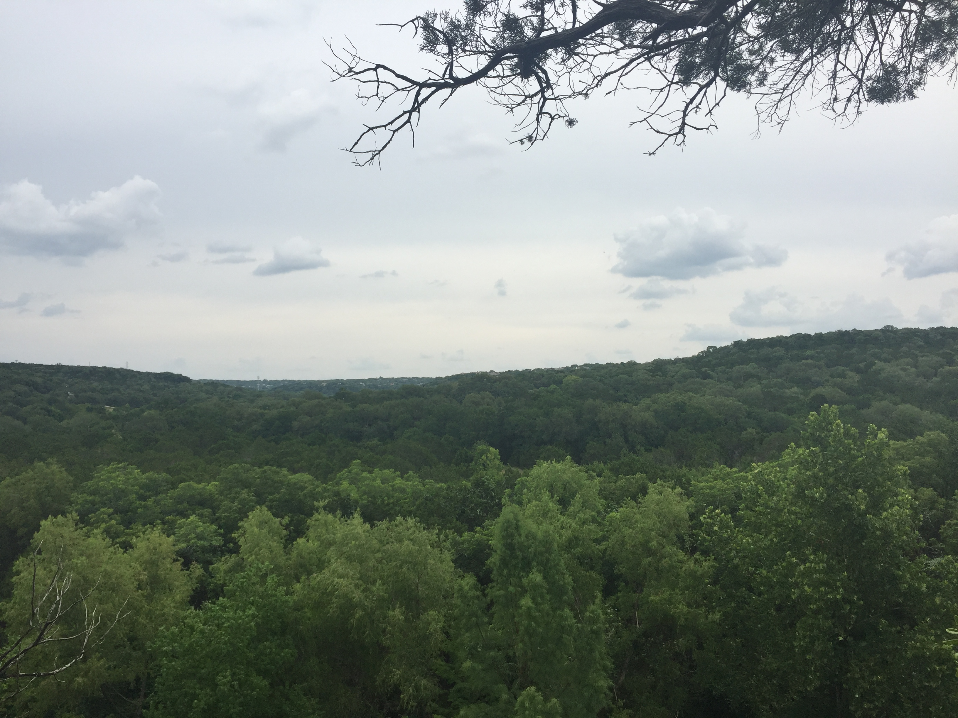 a view of the Balcones Canyonlands preserve